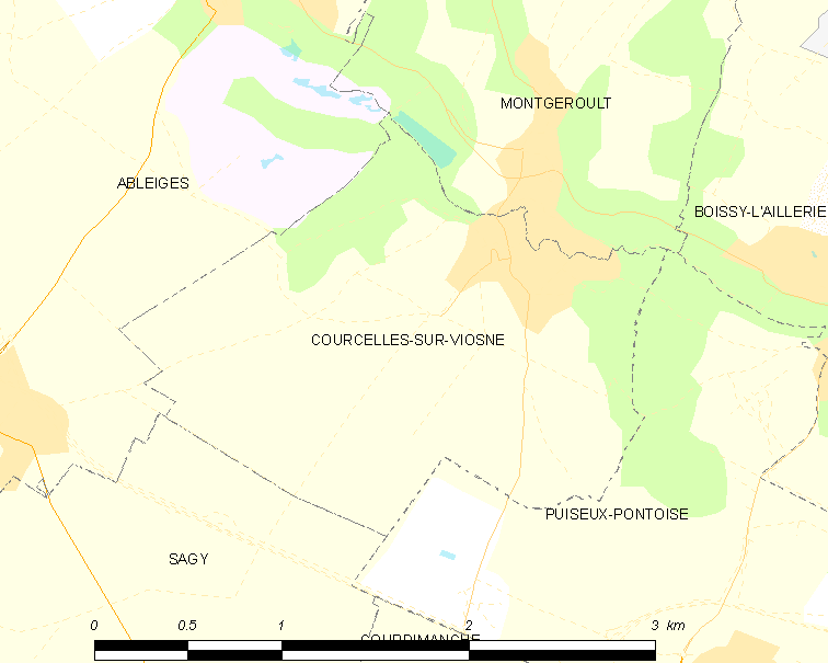 Map of French municipality Courcelles-sur-Viosne